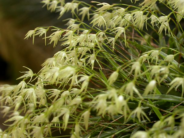 Anathallis